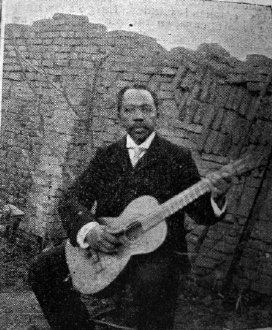 Argentine "payador" Gabino Ezeiza, considered the best of the genre in his country.